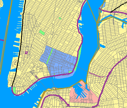 Map of Lower East Side in New York City.